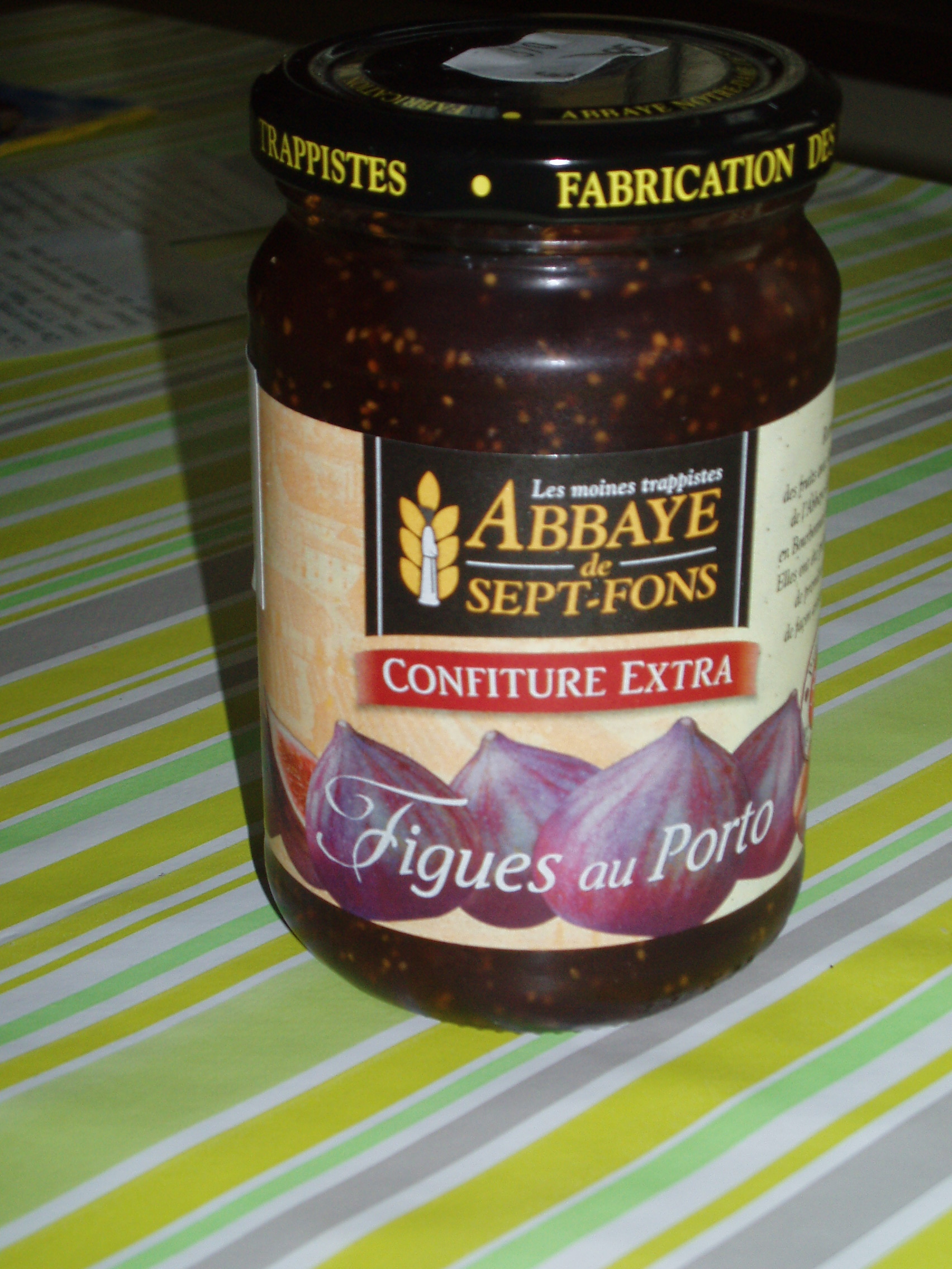 Abbey of Sept-Fons jam